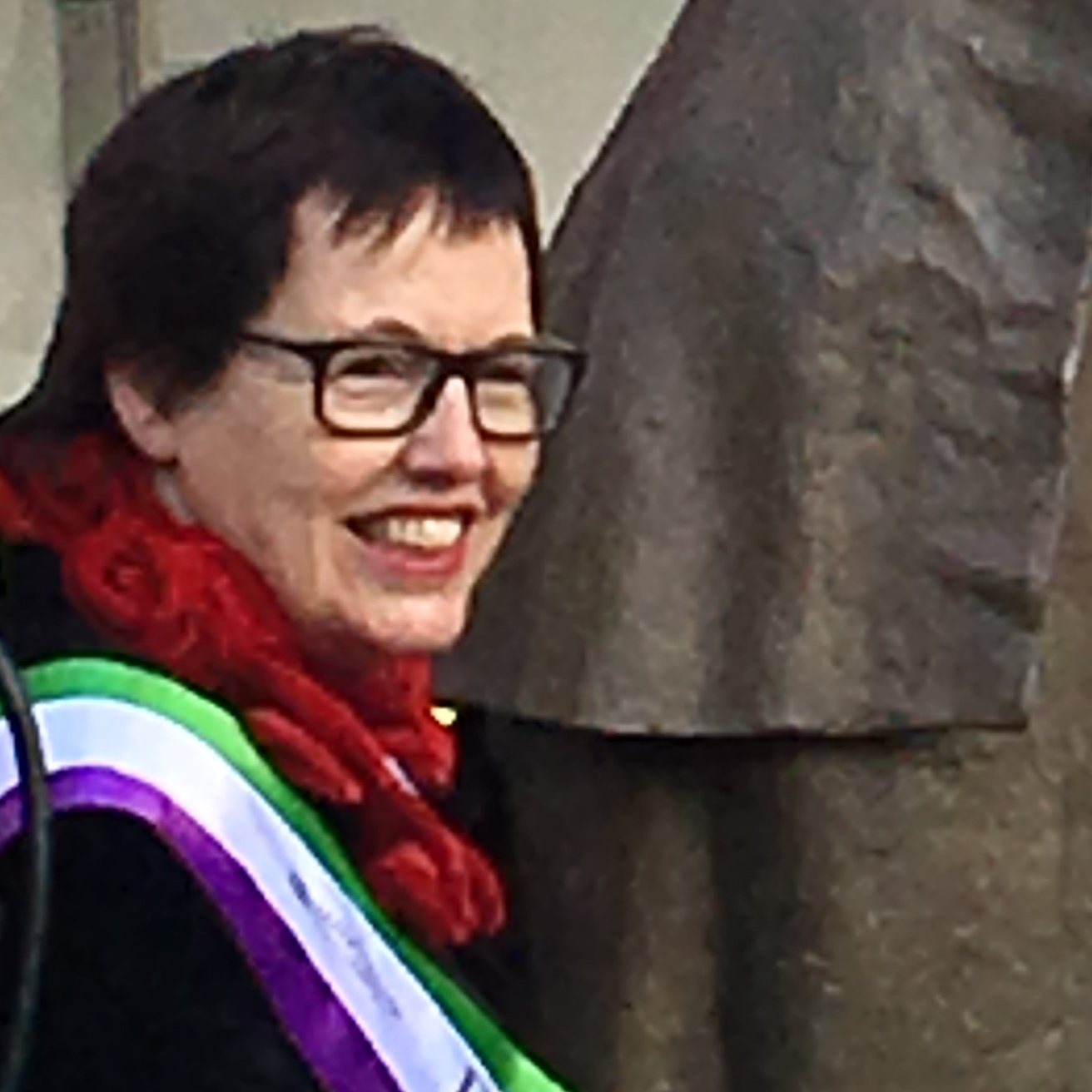 Hazel Reeves (left), MRSS SWA FRSA is a British sculptor based in Sussex, England, who specialises in figure and portrait commissions in bronze. Her work has been shown widely across England and Wales. She is stood with Dr Helen Pankhurst MBE (right) Activist and author, granddaughter of Sylvia, great-granddaughter of Emmeline. A women's rights activist and senior advisor to CARE International, working in the UK and in Ethiopia. She is a trustee of ActionAid, a Visiting Senior Fellow at LSE and Visiting Professor at Manchester Metropolitan. On Friday 14 December 2018 a statue of Emmeline Pankhurst was unveiled in her home city of Manchester. Designed by sculptor Hazel Reeves, to celebrate the contribution of women to the city and it took place on the day that exactly 100 years ago the first women voted in a UK general election for the first time.